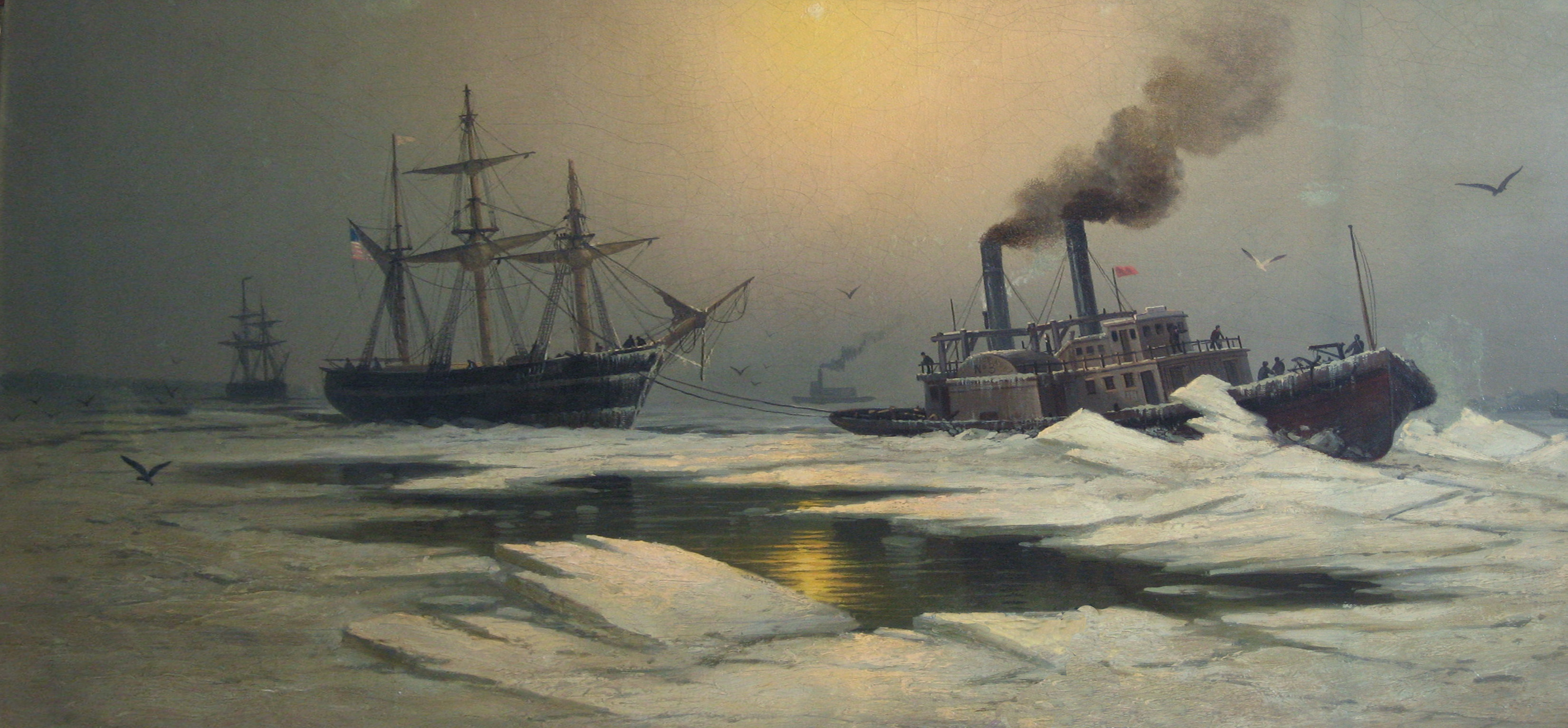 "City Ice Boat No. 3", an 1877 painting by George Essig. The painting depicts the City of Philadelphia's City Ice Boat No. 3 towing a sailing ship with a damaged mast through ice floes on the Delaware River.